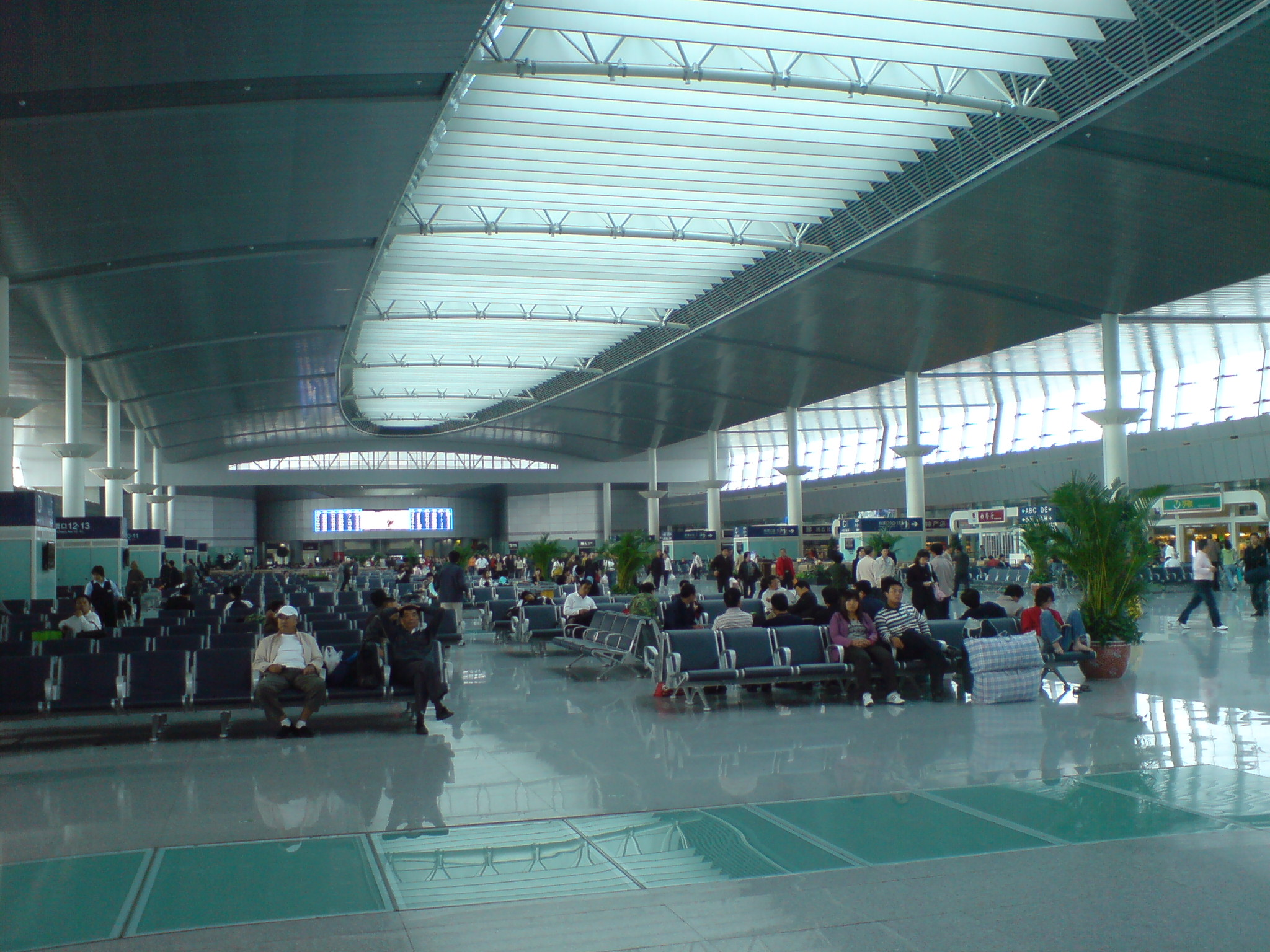 New high-speed train and train station in Tianjin, China 天津站